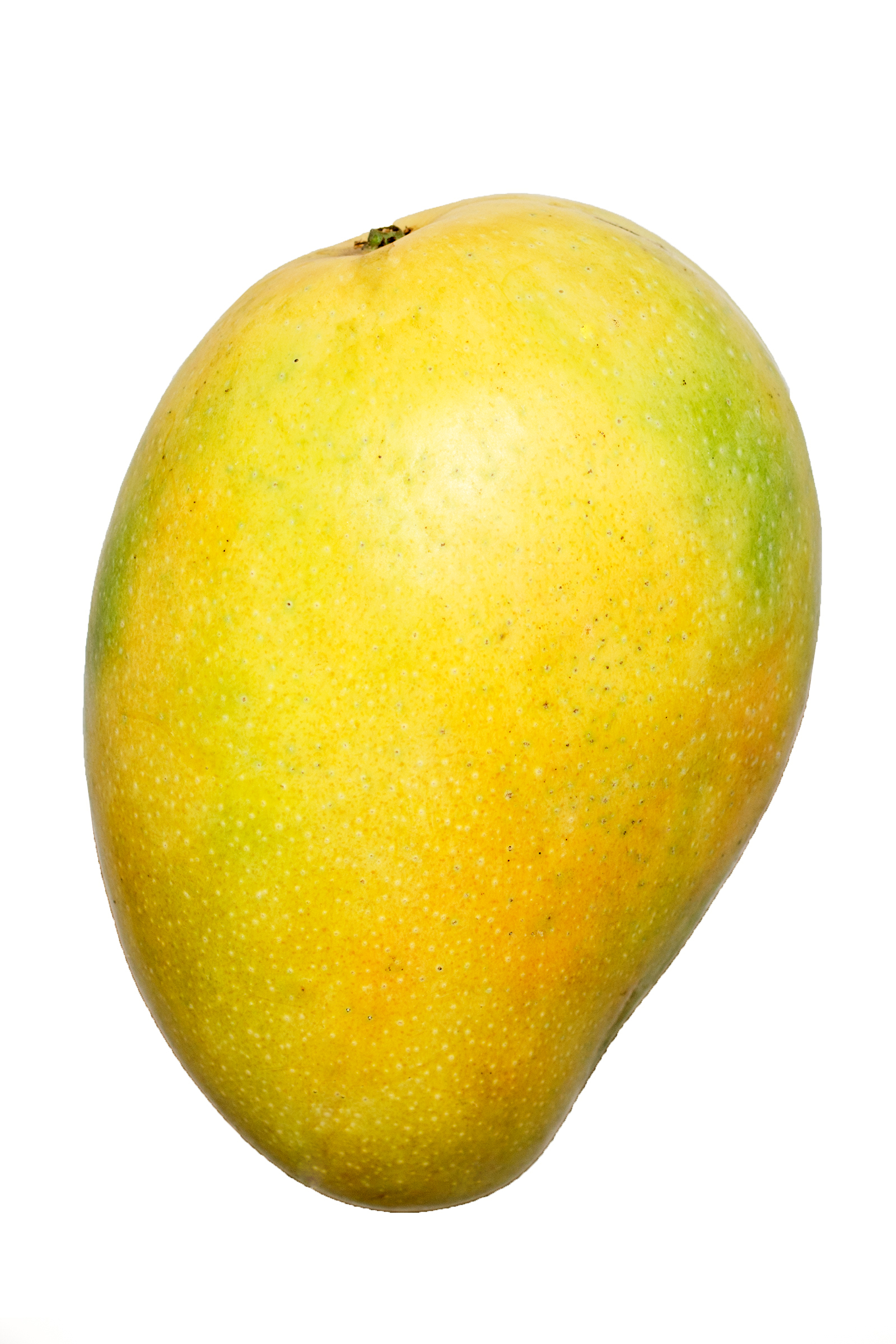 Mango